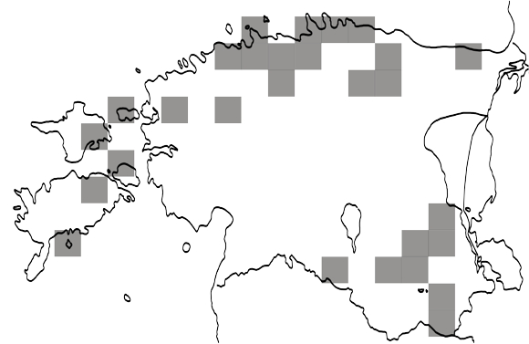 Nephroma parile. Distribution in Estonia 2011.